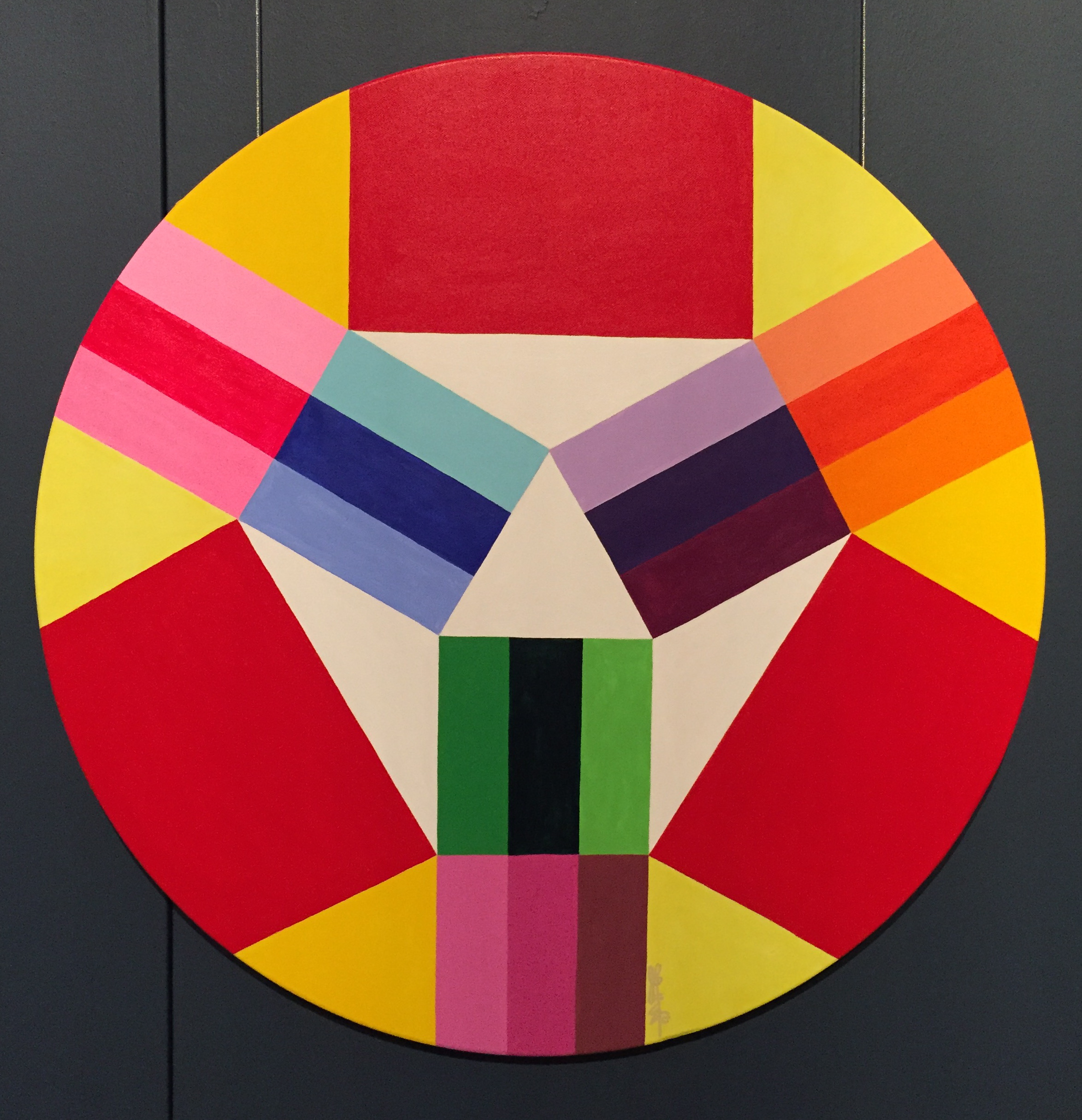 Acrylic Paint on Cotton Canvas 800mm in diammeter